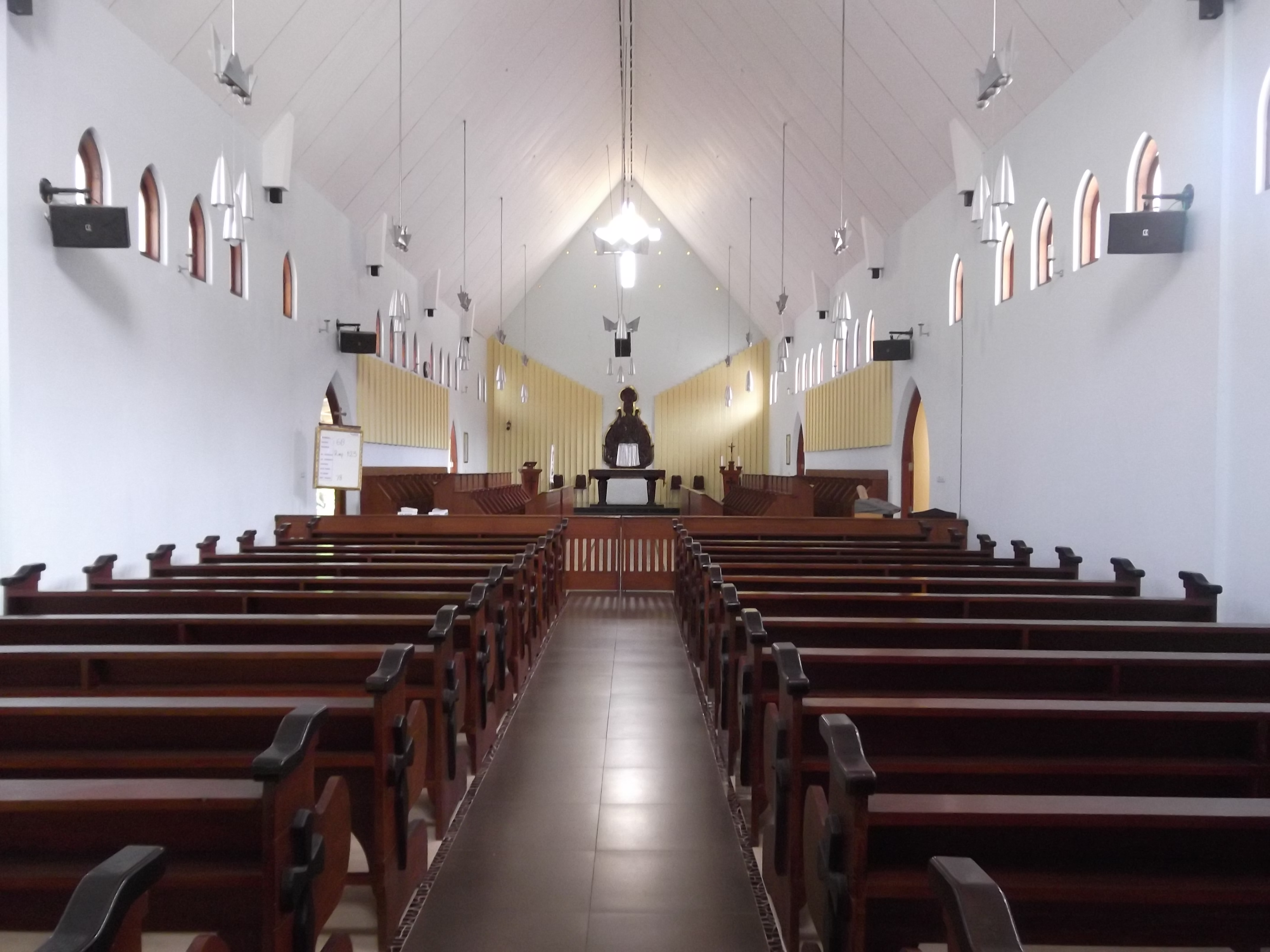 Church interior of the Monastery of Saint Mary Rawaseneng, Temanggung, Indonesia.